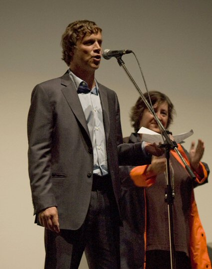 Todd Haynes @ 2007 Toronto International Film Festival